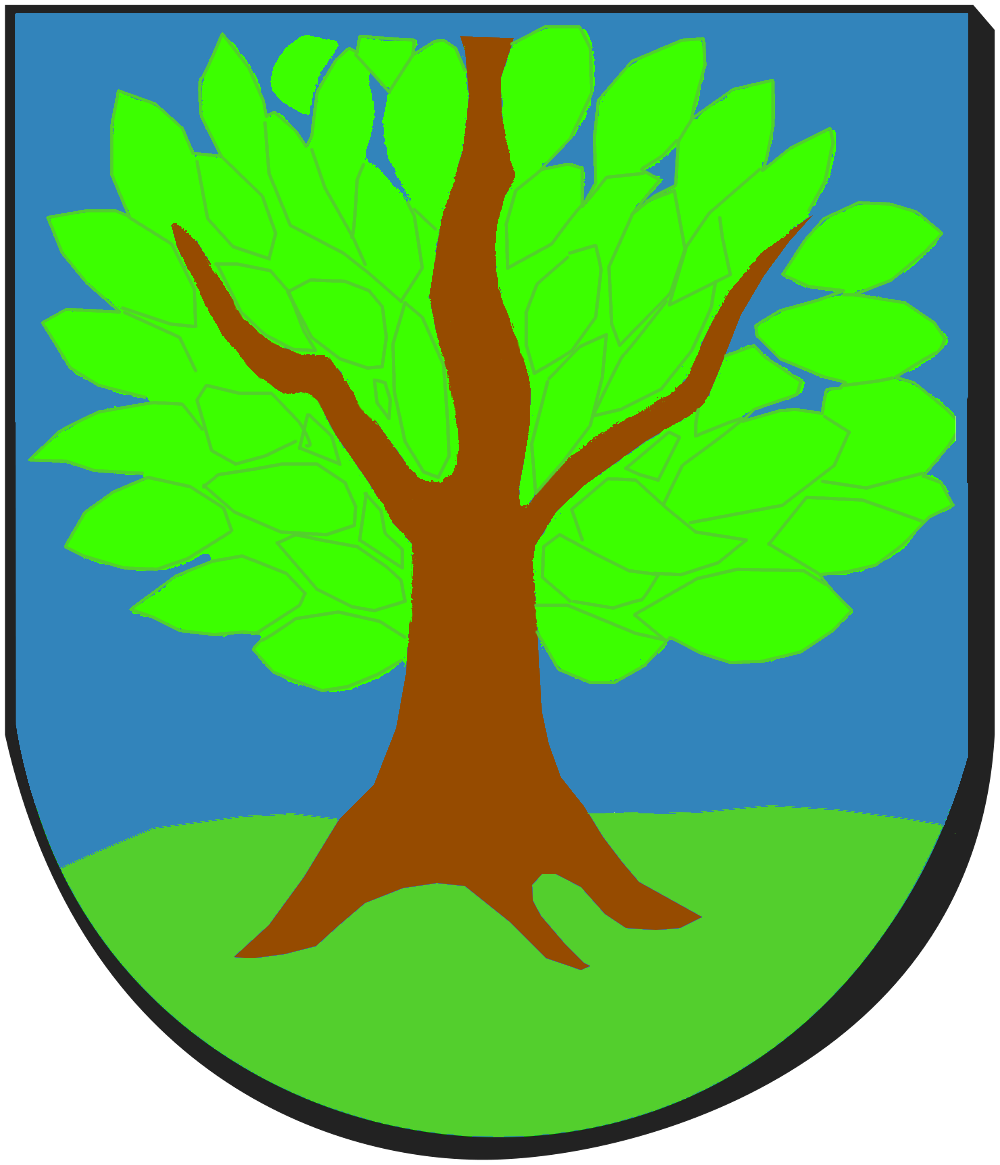 Coat of arms - Harbutowice (Silesian Voivodeshipt)